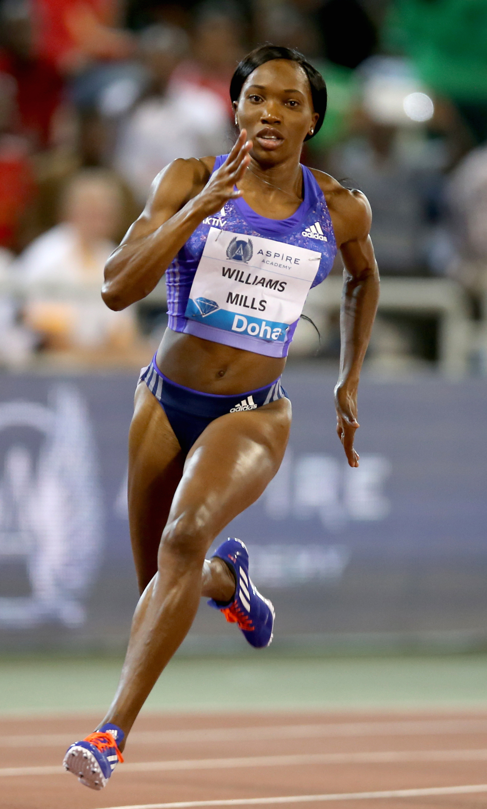 Jamaica's Novlene Williams-Mills competes in women's 400M at the Doha Diamond League.